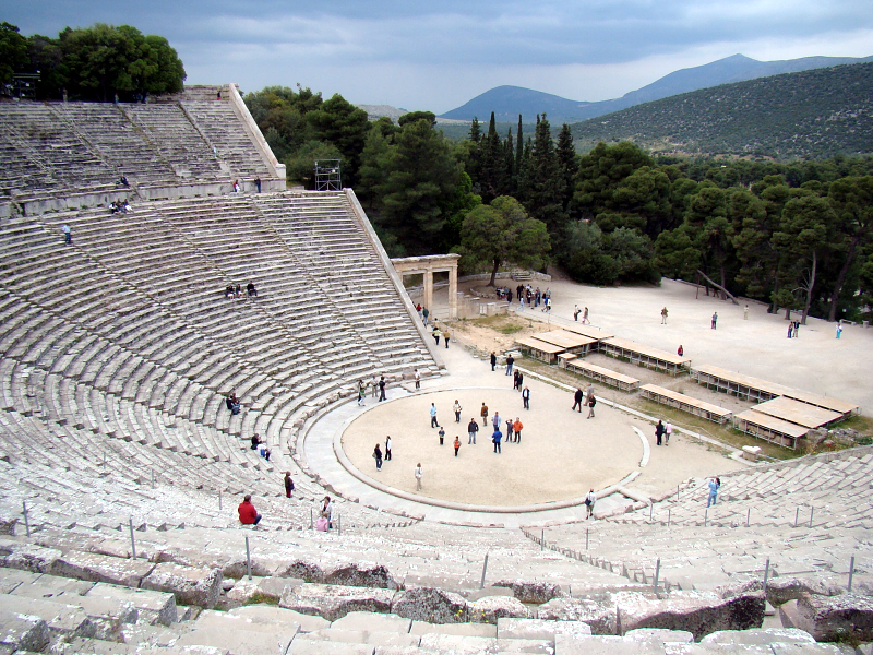 Theatre of Epidauros